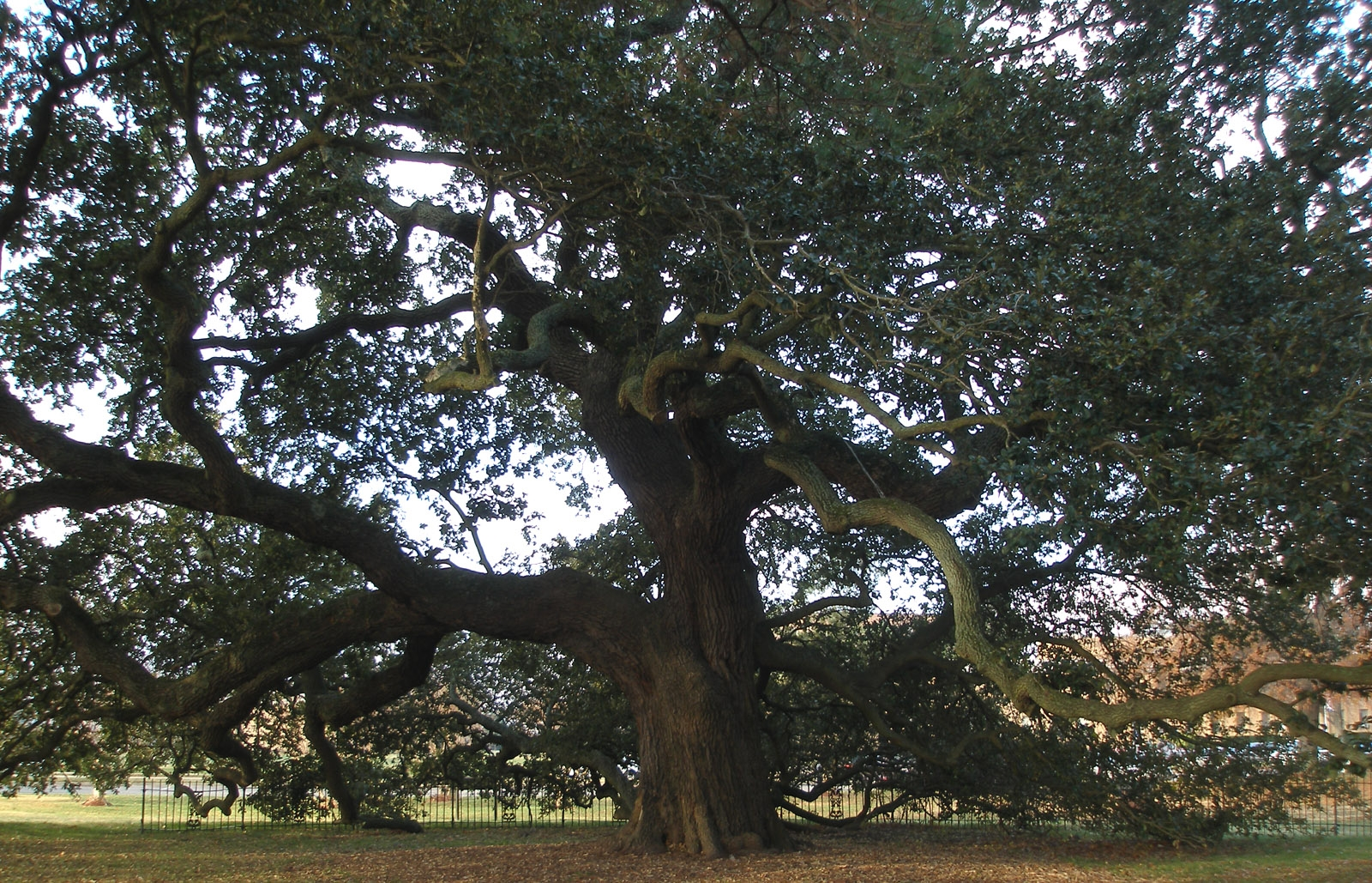 The Emancipation Oak